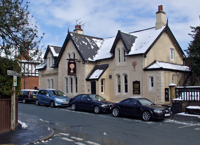 The Wheatsheaf, Kirk Ella, East Riding of Yorkshire.Seen from the corner of Godman's Lane and Packman Lane.